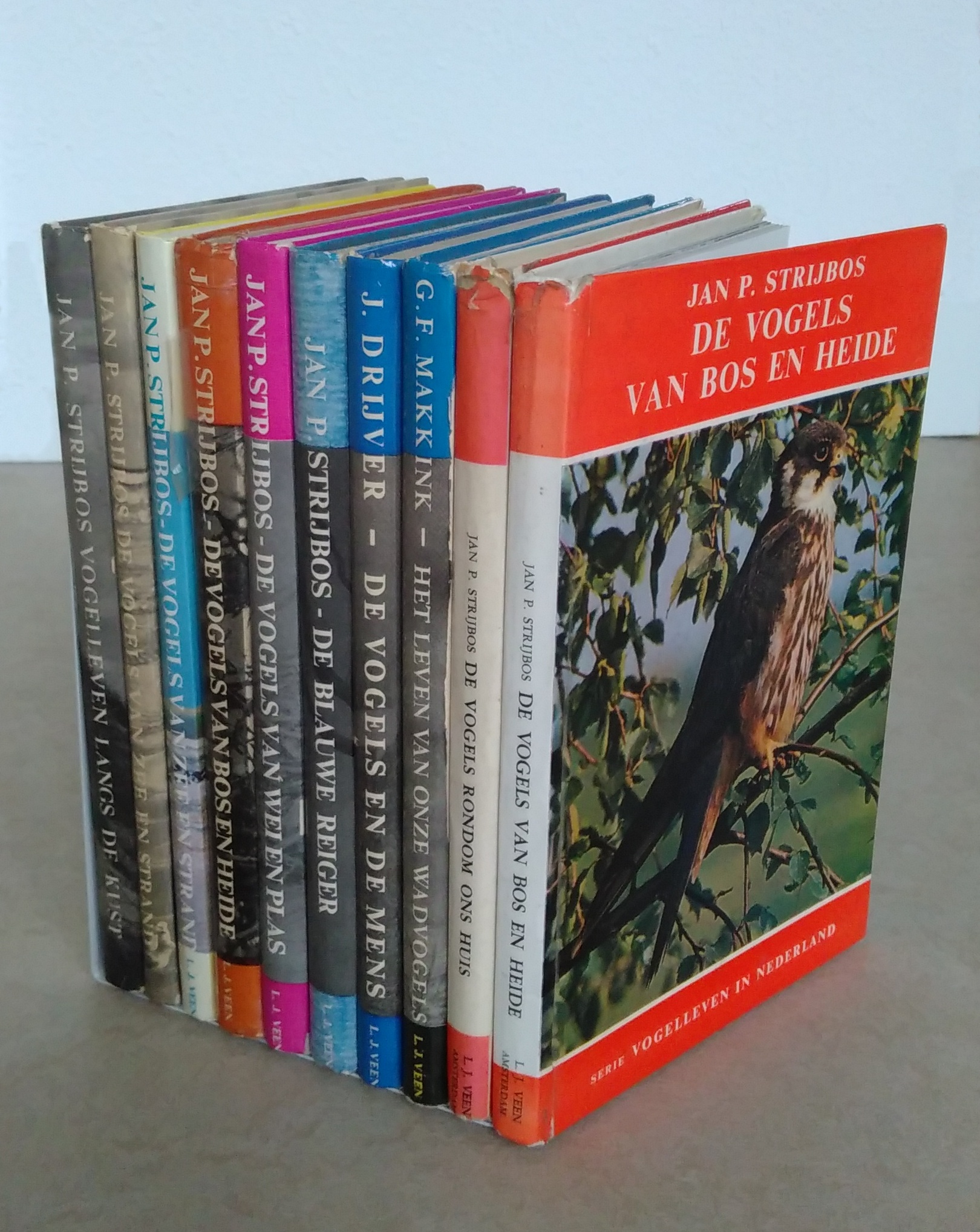 Book covers from "Vogelleven in Nederland", Birdlife in the Netherlands. Written by four different writers